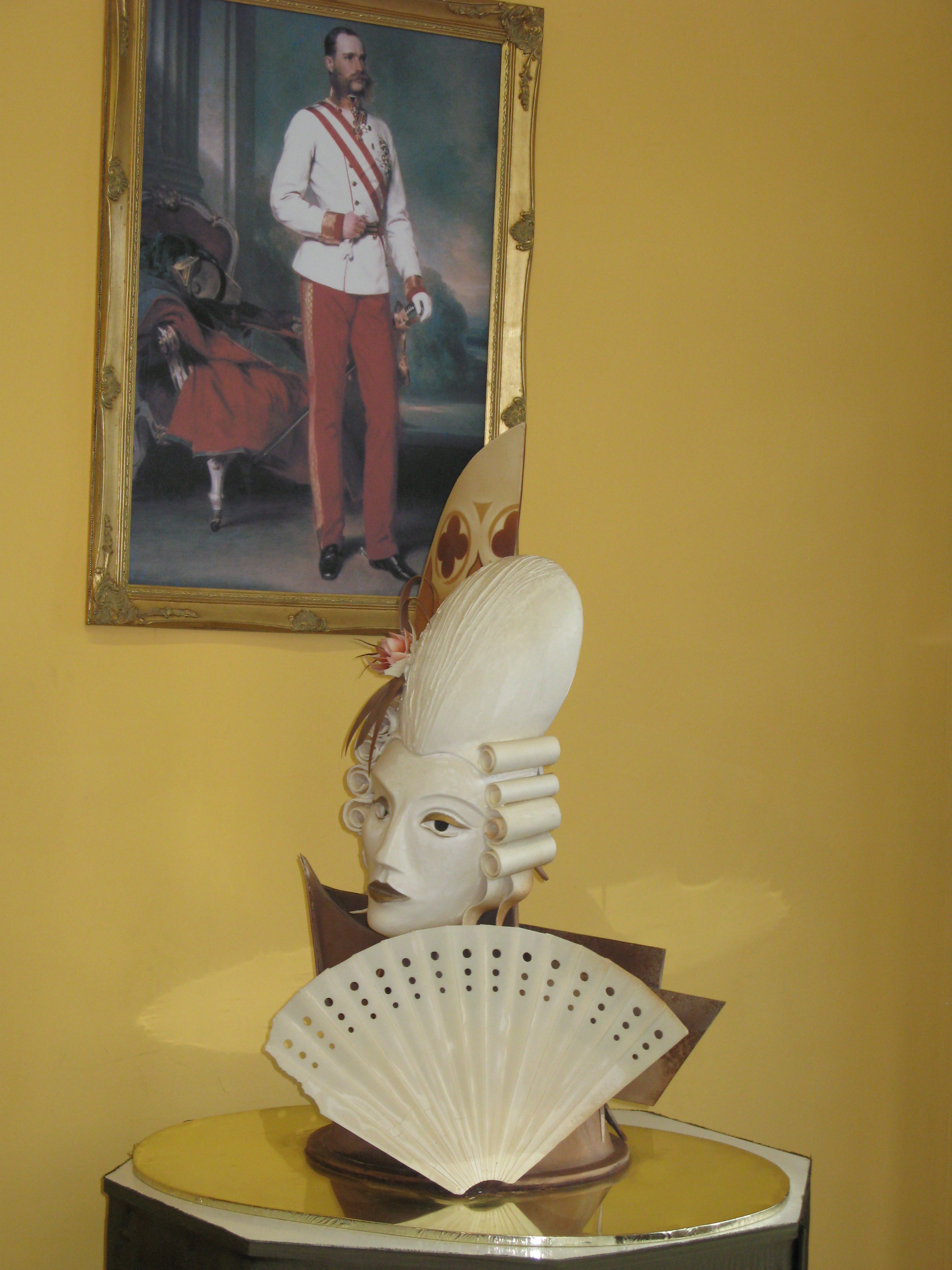 Chocolate Museum-Heindl in Vienna